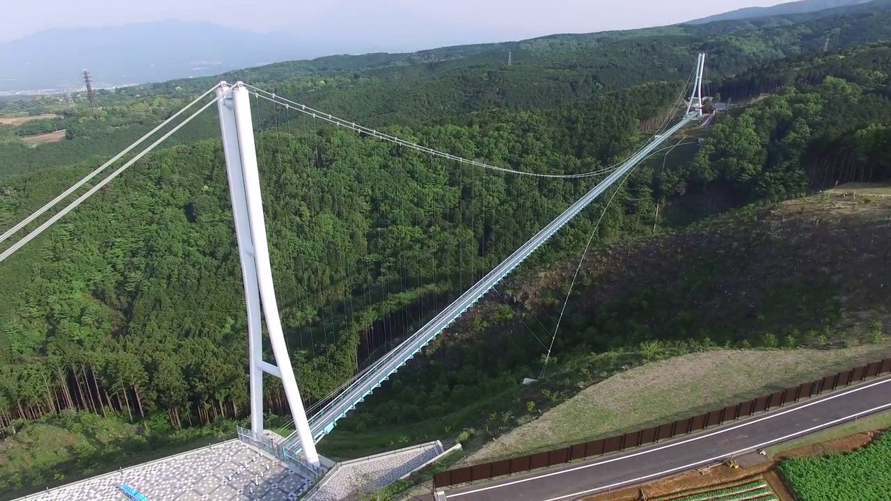 Aerial view of Hakone Seiroku Mishima Suspension Bridge in Mishia, Shizuoka prefecture, Japan.